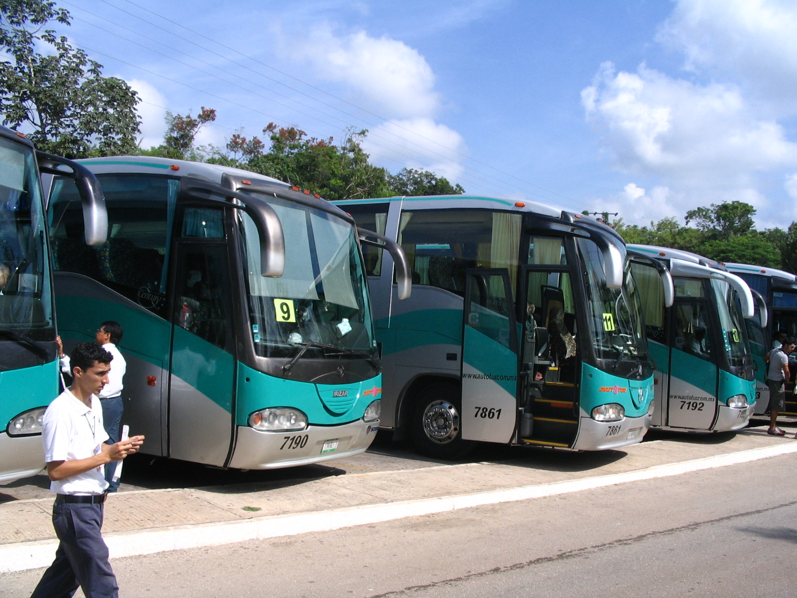 Several buses parked at Chichen Itza, Mexico, during the International Olympiad in Informatics 2006.